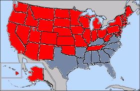 1920 elections in USA - results by state